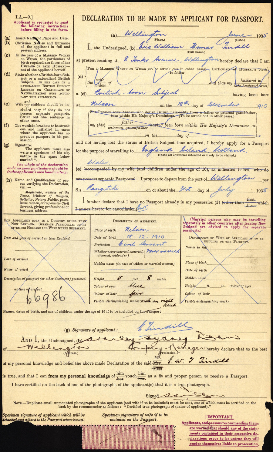 Archives New Zealand Reference: ACGO 8333 IA1 1350 / 15/11/59182